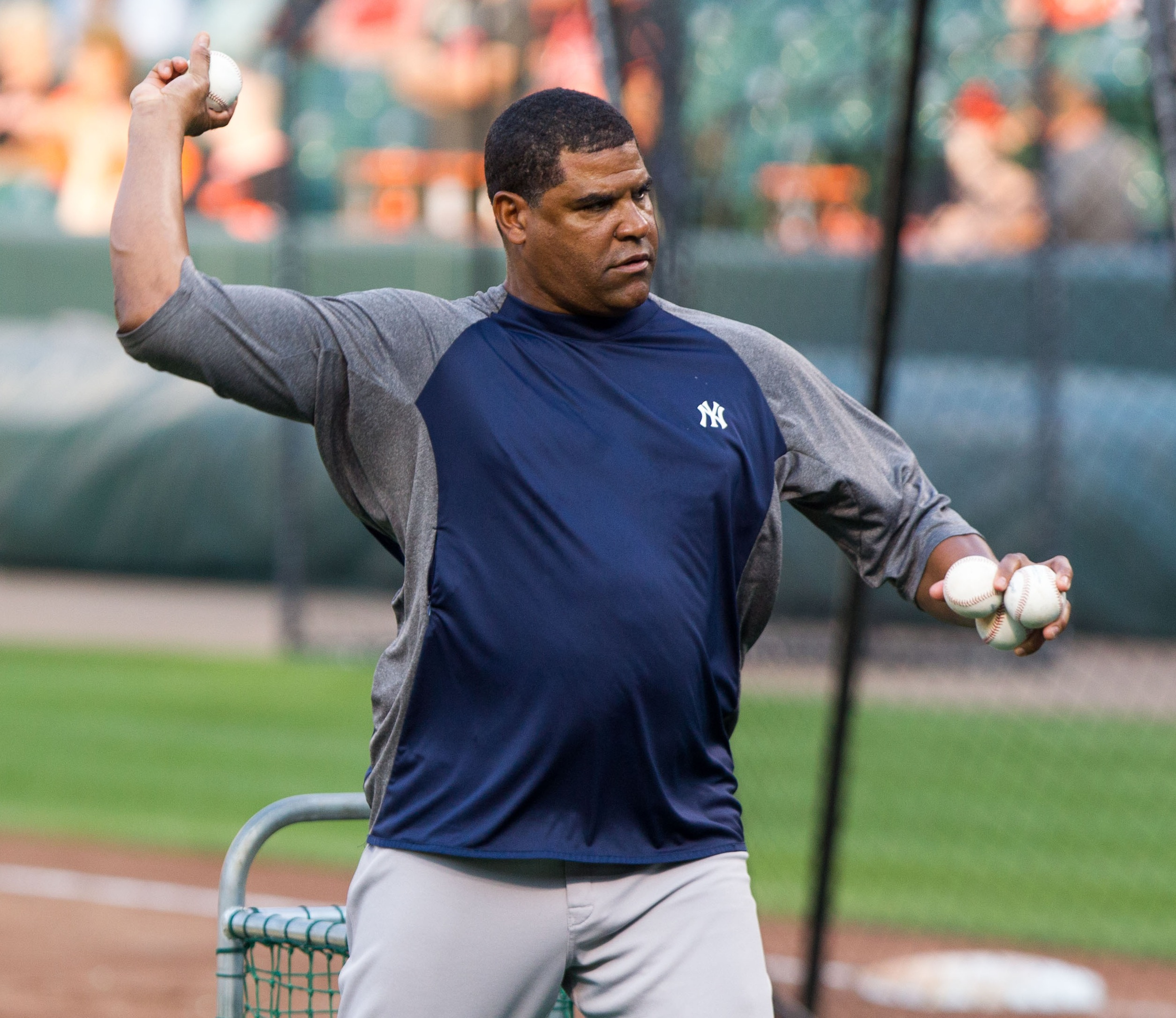 New York Yankees at Baltimore Orioles September 6, 2012